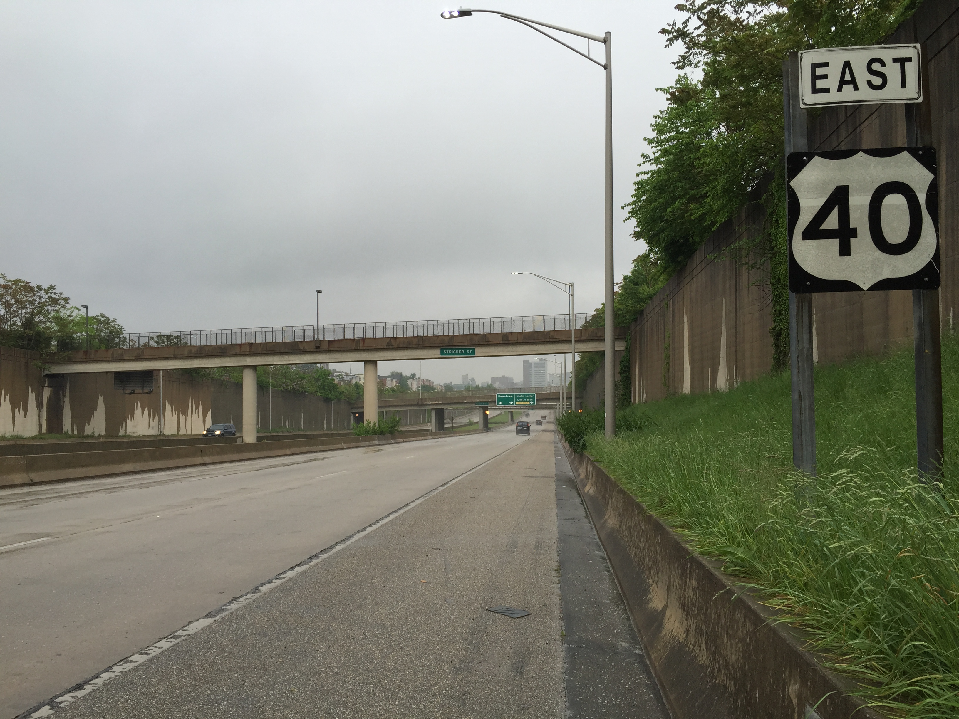 View east along U.S. Route 40 (former Interstate 170) near Stricker Street in Baltimore City, Maryland